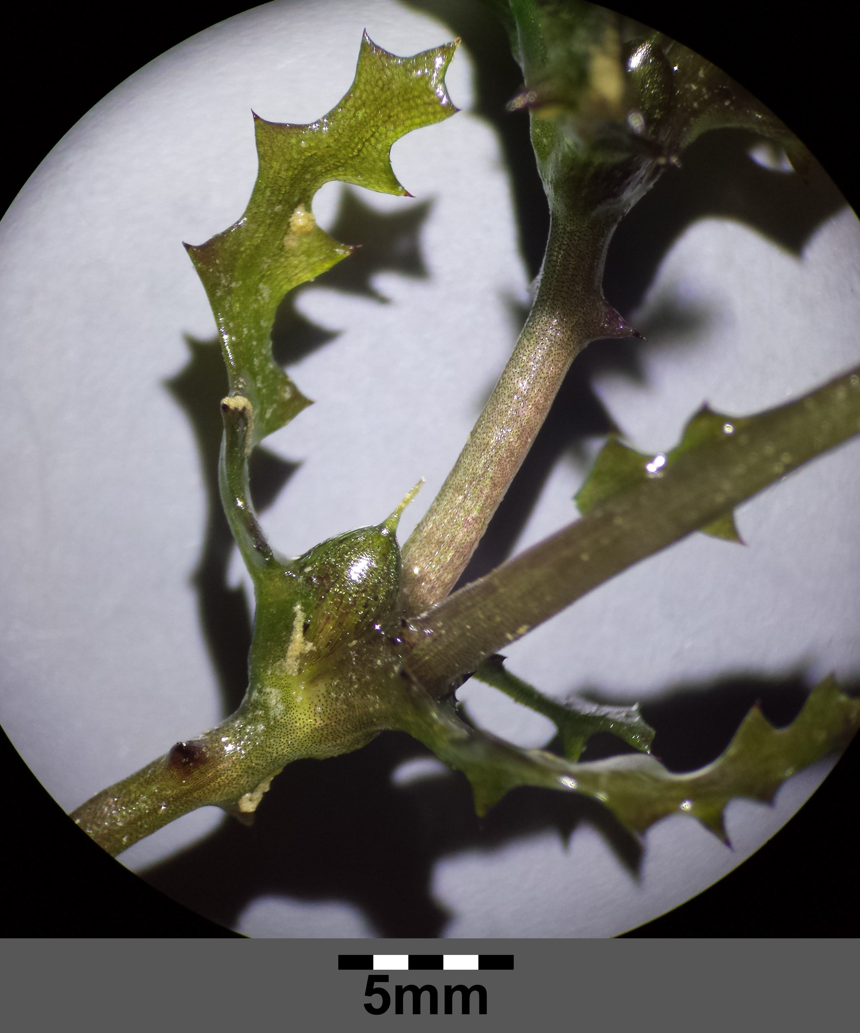 Infructescence Taxonym: Najas marina ss Fischer et al. EfÖLS 2008 ISBN 978-3-85474-187-9 Location: Alte Donau, Vienna-Floridsdorf - ca. 160 m a.s.l. Habitat: oxbow lake